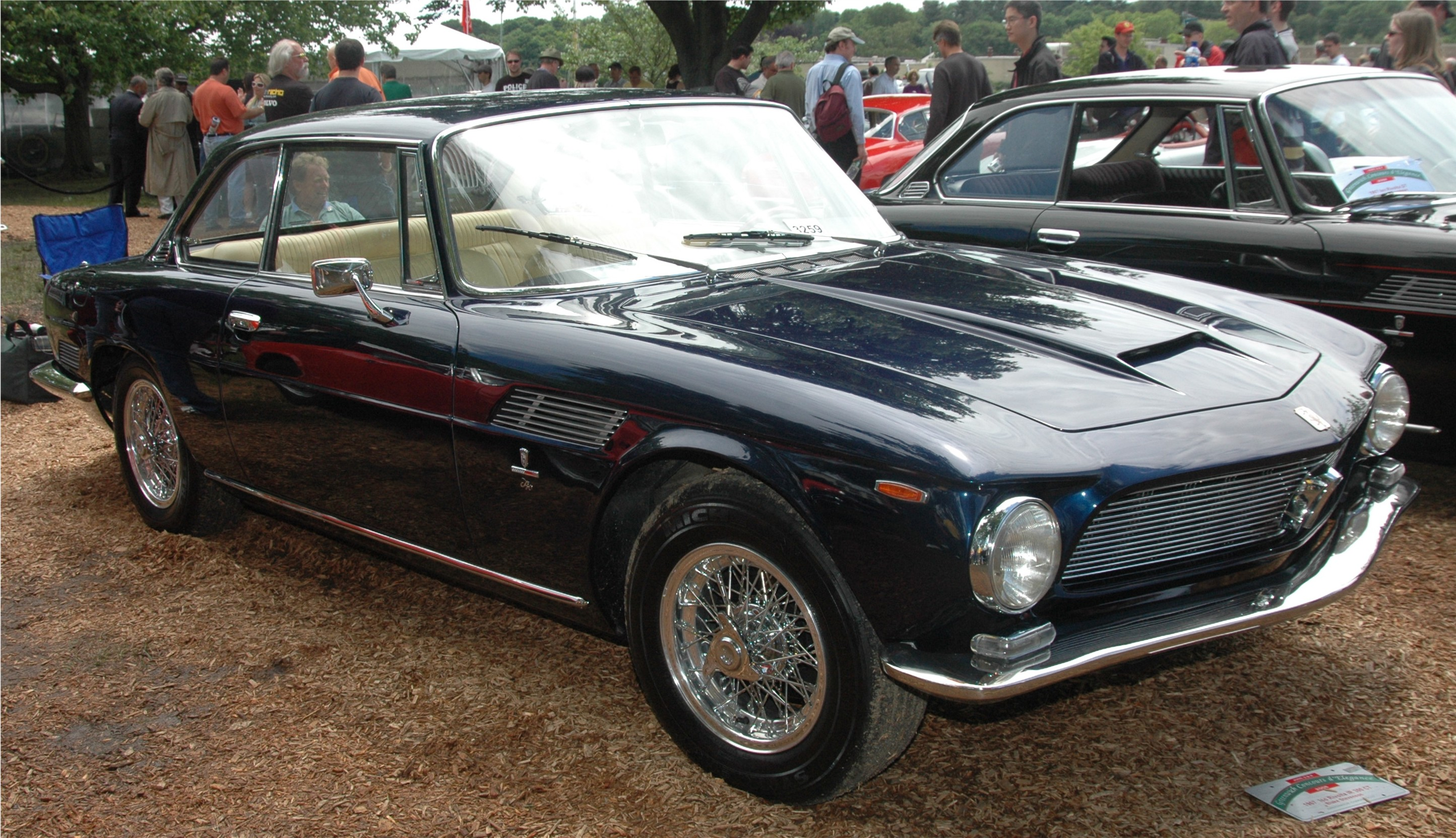 1967 Iso Rivolta IR 300 GT Photographed by Jagvar at the Greenwich Concours d'Elegance in Greenwich, CT on June 4, 2006.